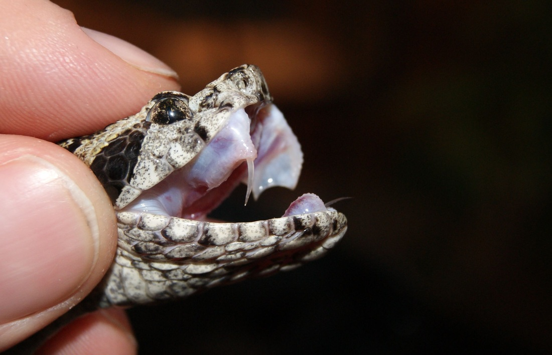 Bothrops venezuelensis, detail of the fangs.